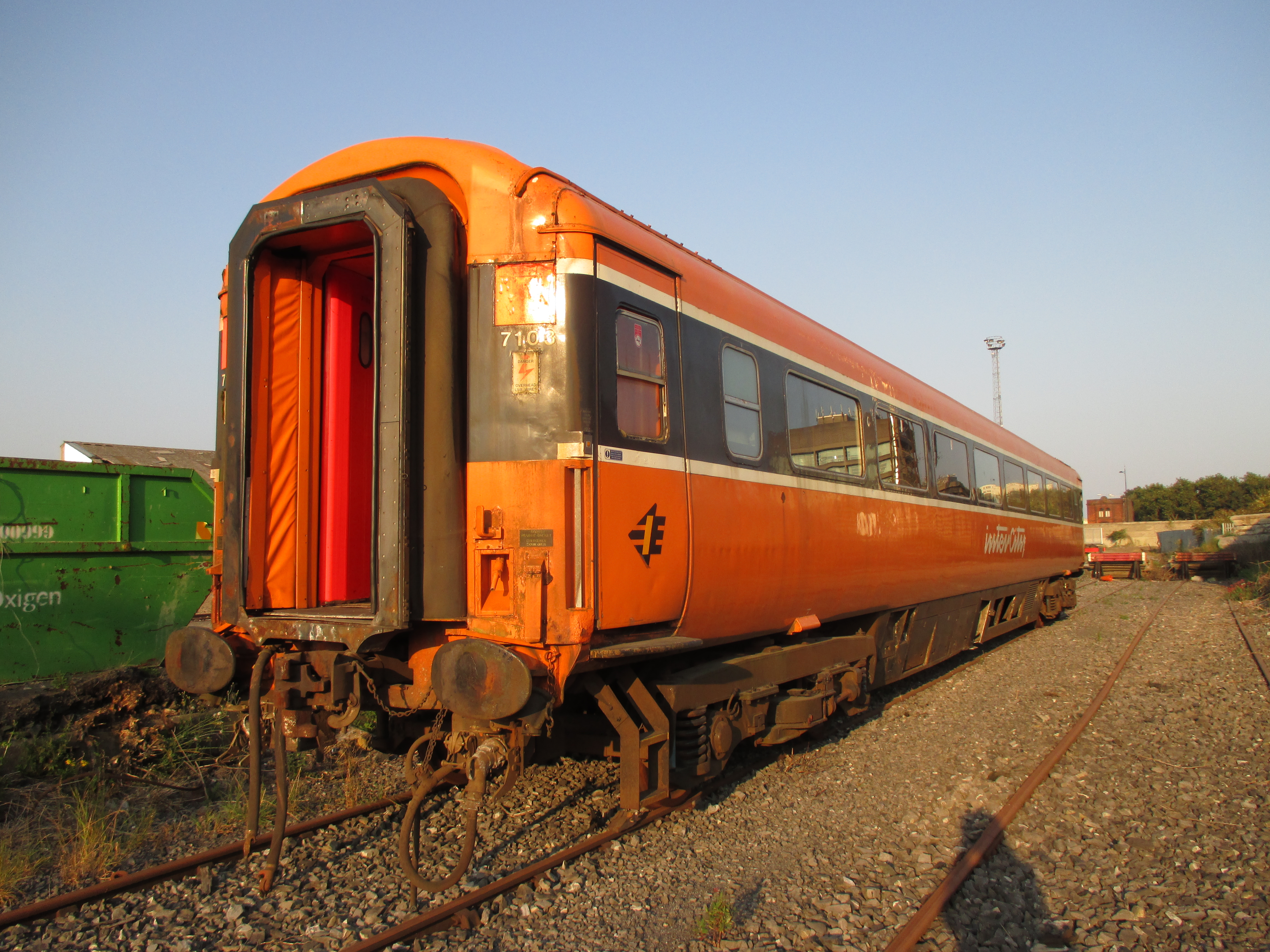 IÉ Mark 3 Standard 7103 in October 2014